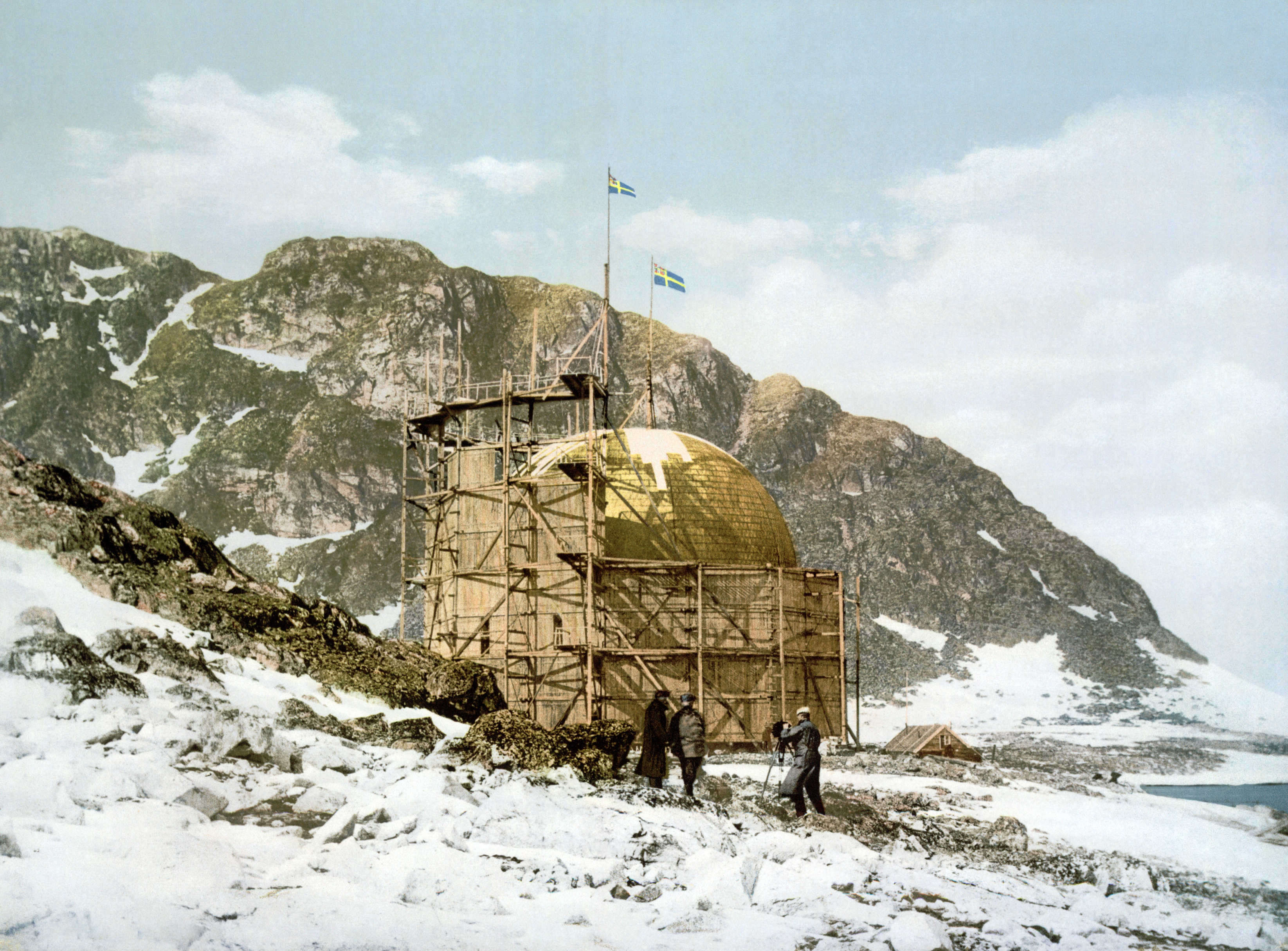 Salomon August Andrée's Station at Danskøya, Svalbard, Norway Norsk (bokmål): Salmon August Andrées polarstasjon på Danskøya i Svalbard